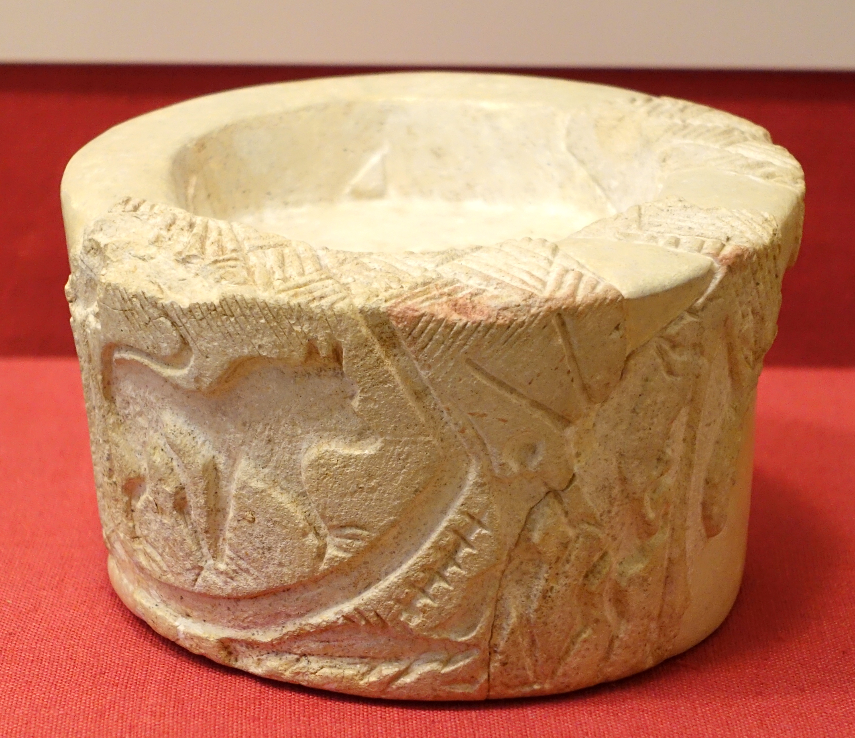 Exhibit in the Oriental Institute Museum, University of Chicago, Chicago, Illinois, USA. This work is old enough so that it is in the public domain.